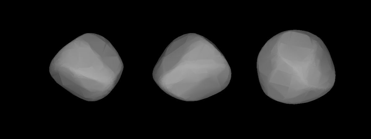 A three-dimensional model of 14 Irene that was computed using light curve inversion techniques.